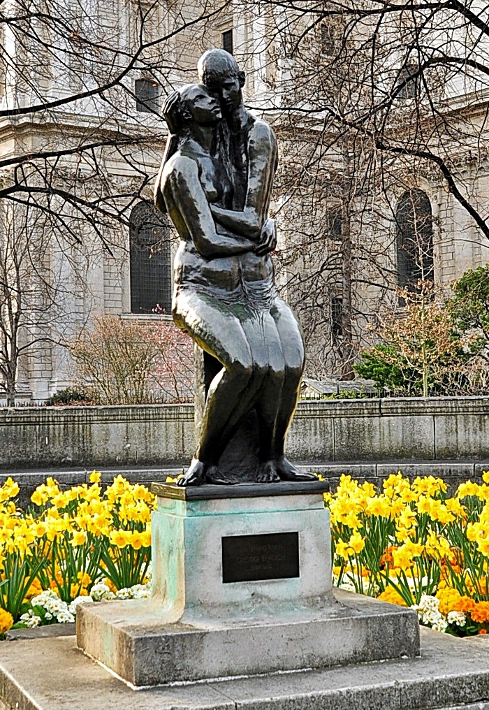 The Young Lovers, sculpture by Georg Ehrlich (1897-1966) located in Festival Gardens by St. Paul's Cathedral. Erected in 1973.